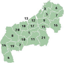 List of districts (fivondronana) in Mahajanga province